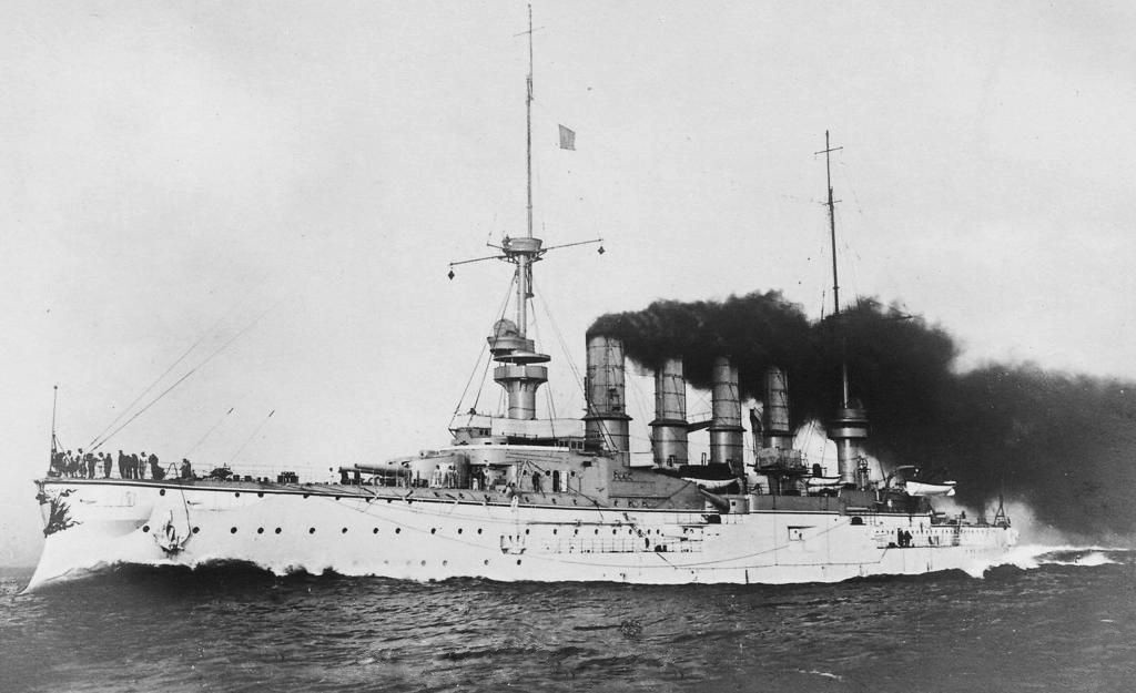 German armored cruiser Scharnhorst